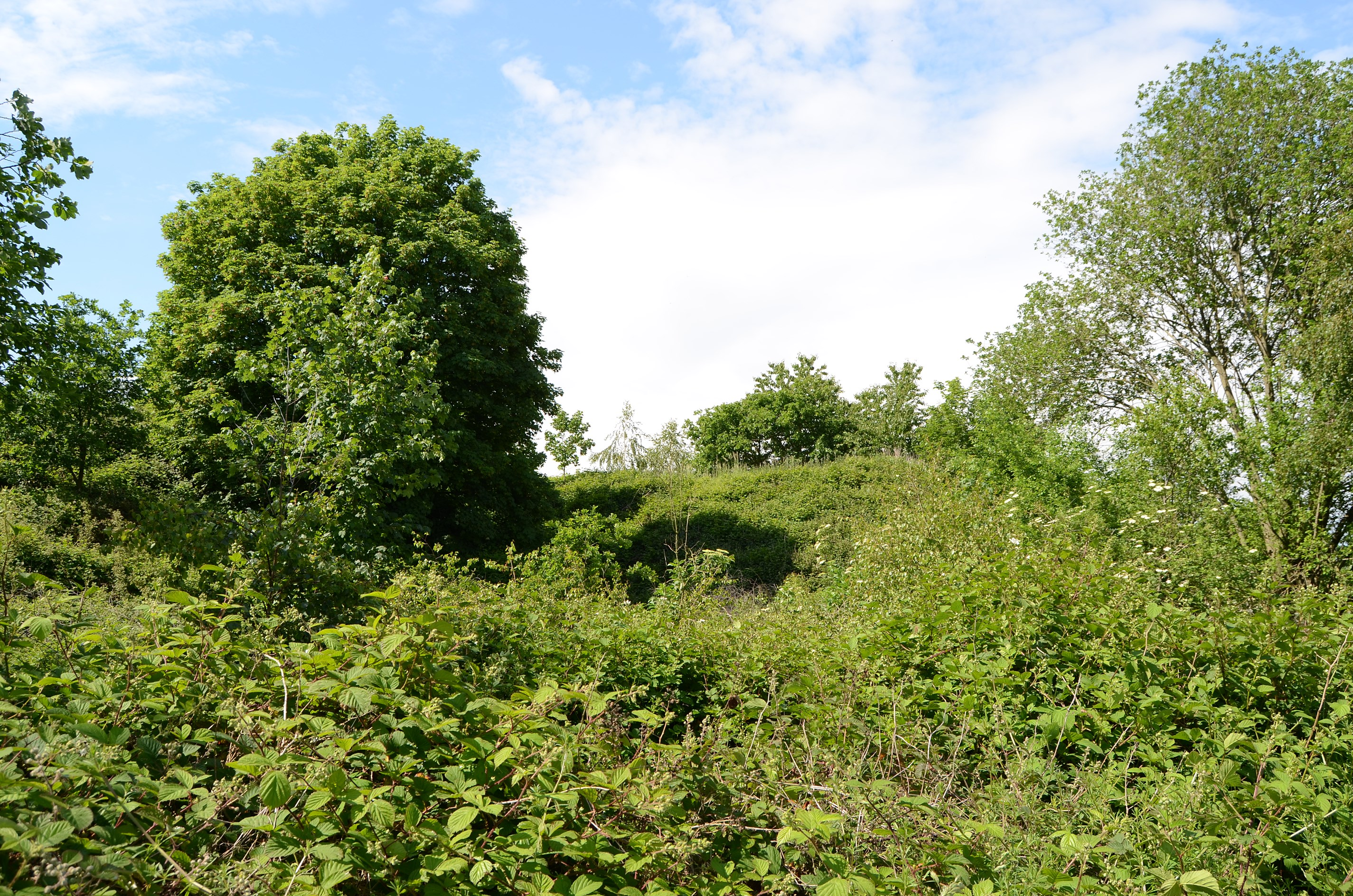 Sonsbeck (North Rhine-Westphalia, Germany) – Sonsbeck Switzerland This photograph was taken with a Nikon D7000.